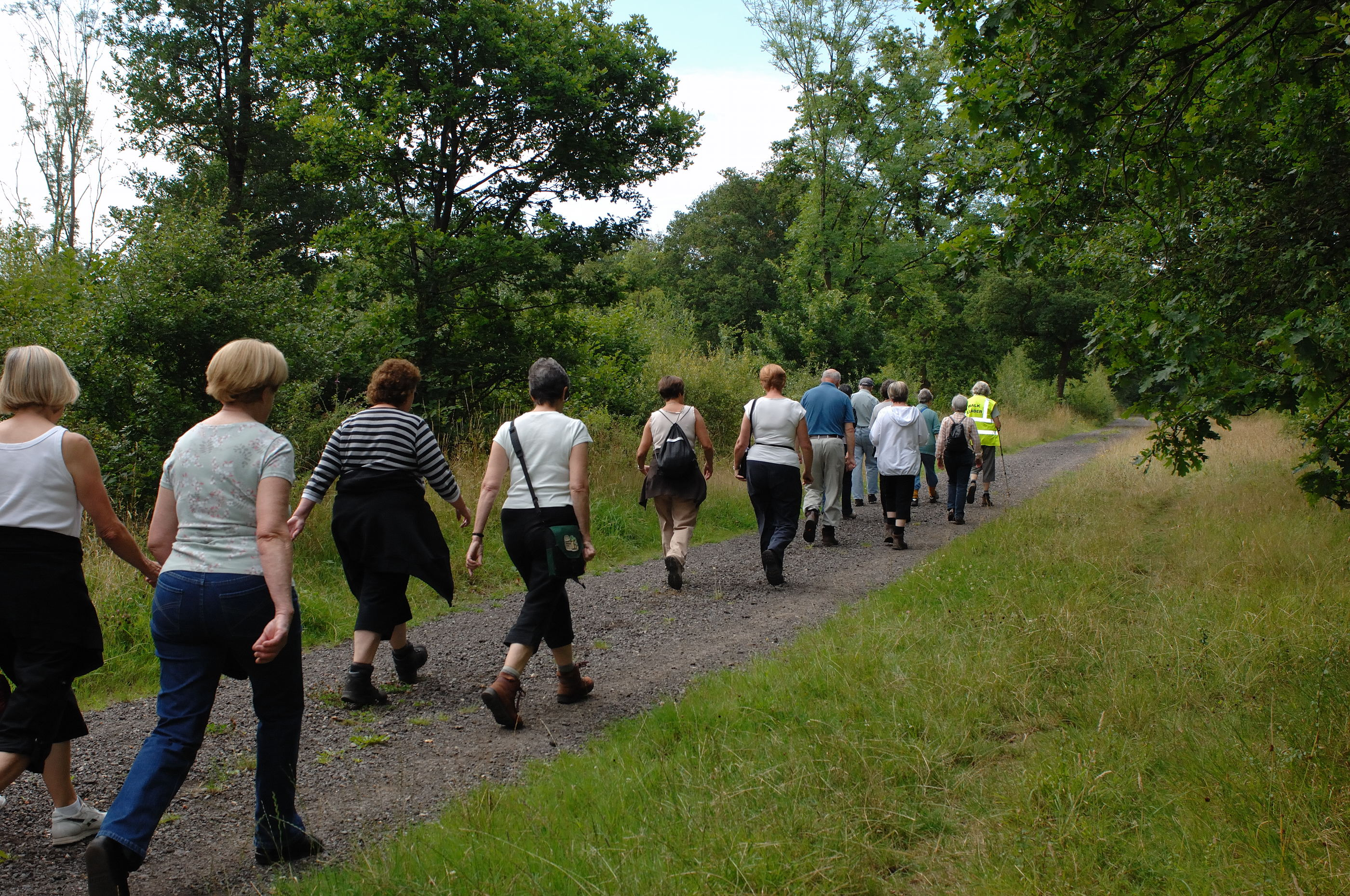 Walking for Health in Epsom, England. A group of walkers are following the walk leader, who is wearing a yellow jacket.